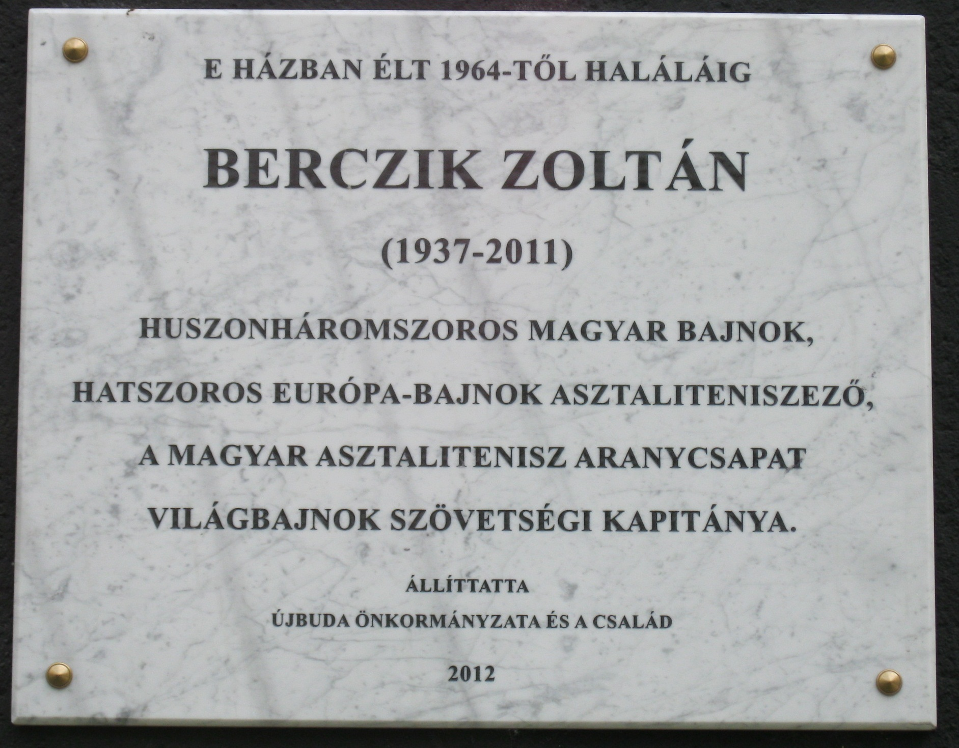 Commemorative plaque of Zoltán Berczik, Budapest District XI, Budafoki Street No 83/a-c (Baranyai Street side)